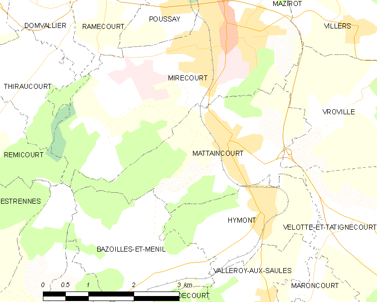 Map of French municipality Mattaincourt